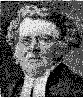 Portrait of Swedish author and clergyman Karl Edmund Wenström